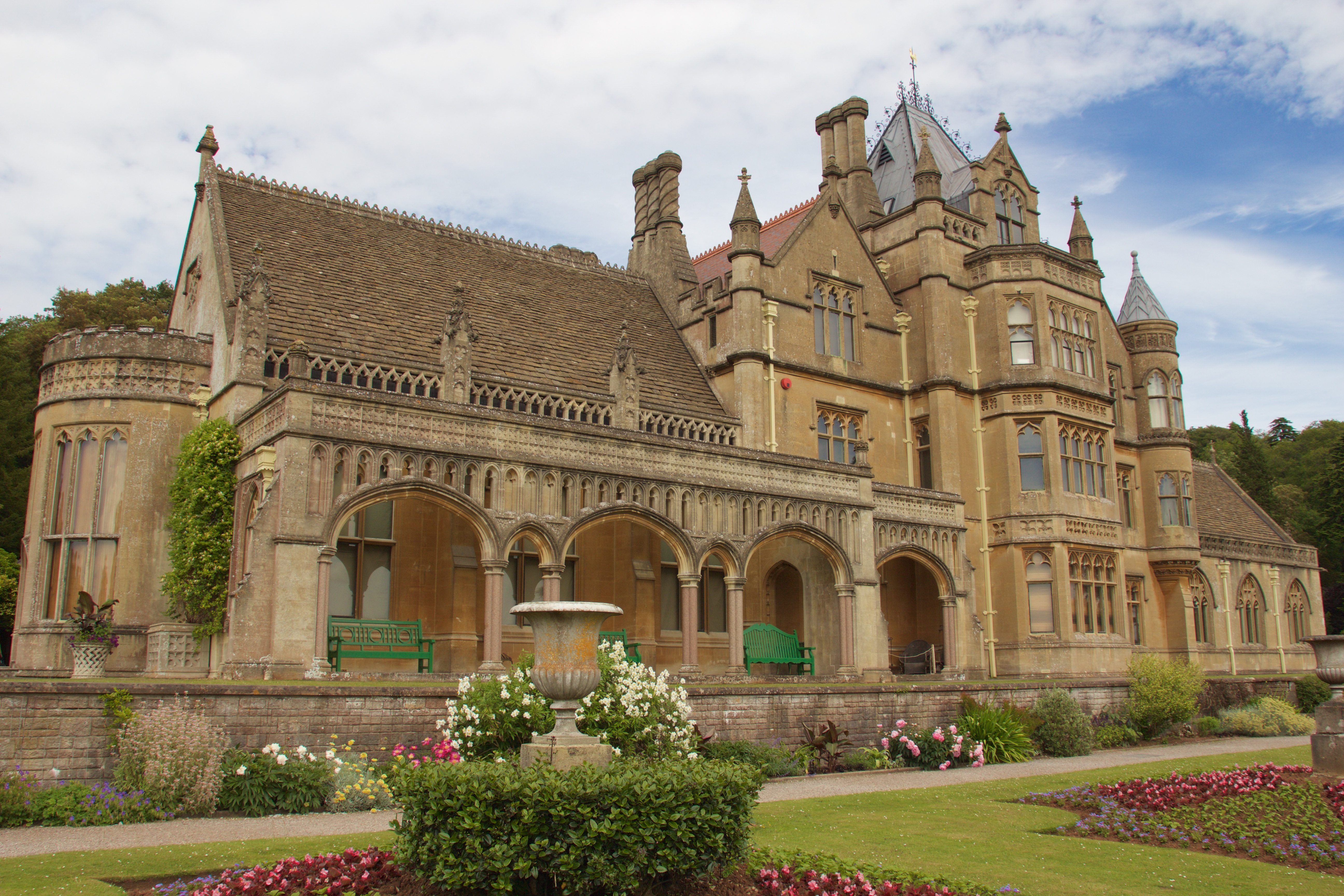 Tyntesfield, Somerset, United Kingdom